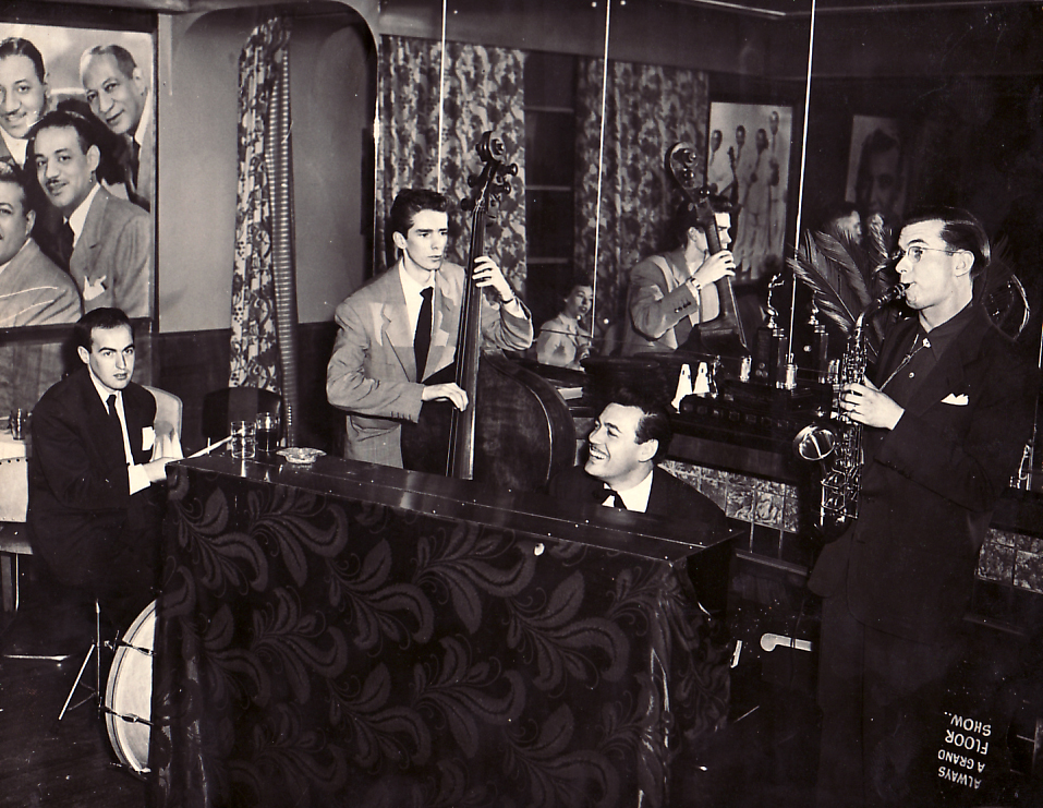 Left to right: Don Varella, Stan Johnson, Marty Napoleon, Fraser MacPherson. Penthouse, Vancouver, B.C. April 4, 1952.